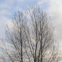 Photograph of tree, contains hidden image File:StenographyRecovered.png, made by User:Cyp